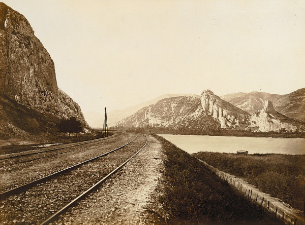 Approach to the Mountain Pass at Donzère. Albumen print, 12 11/16 x 17 3/16 in. (32.3 x 43.7 cm). From the album The Northern Railway from Paris to Lyon and the Mediterranean.